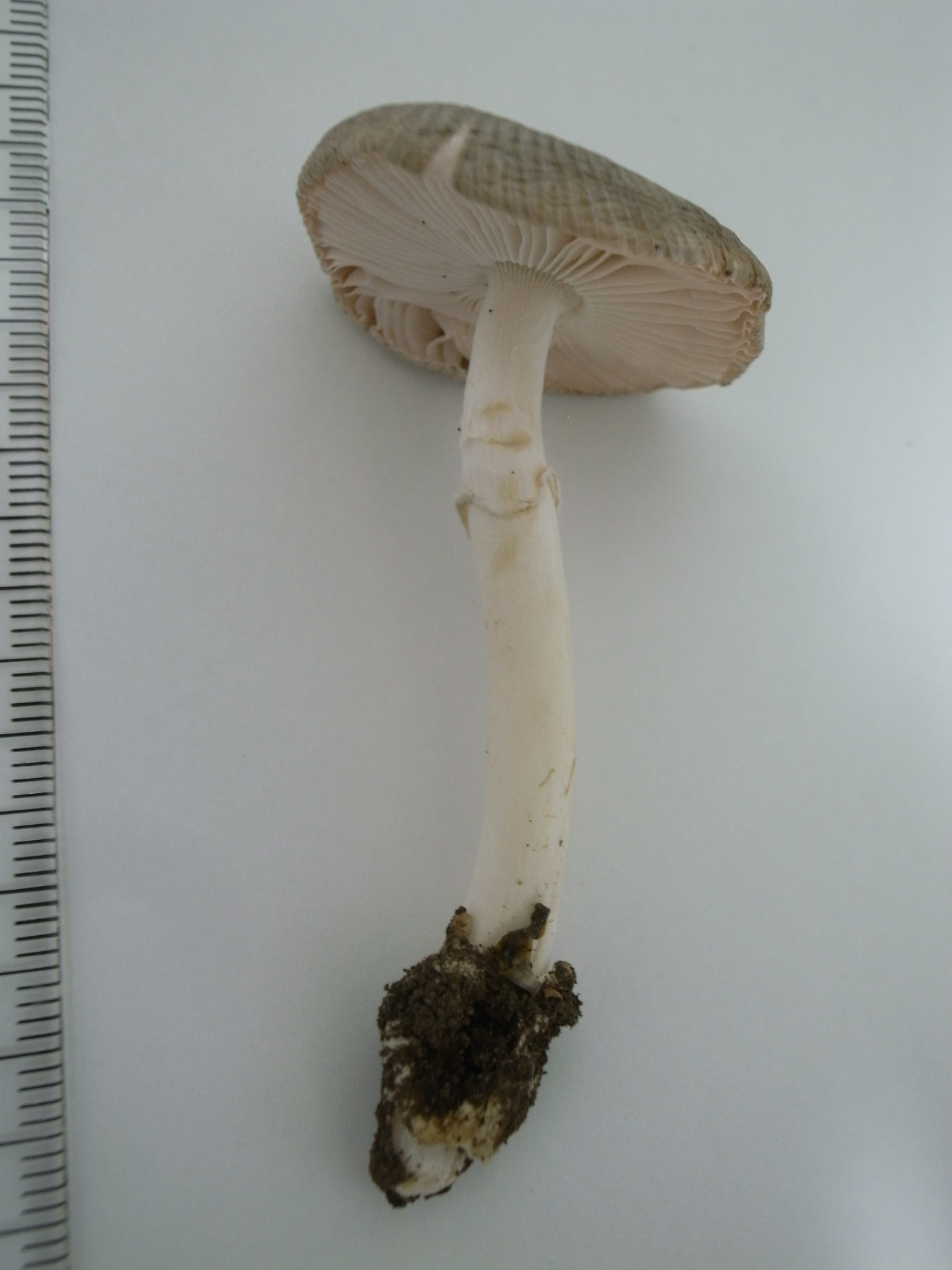 Amanita longistriata S. Imai Image location: Tsukuba, Ibaragi, Japan Growing under hardwoods on the ground Gills: pinkish white Recognized by sight For more information about this, see the observation page at Mushroom Observer.